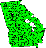 Map of locations for the 878th EN BN, 648th MEB, GA ARNG.